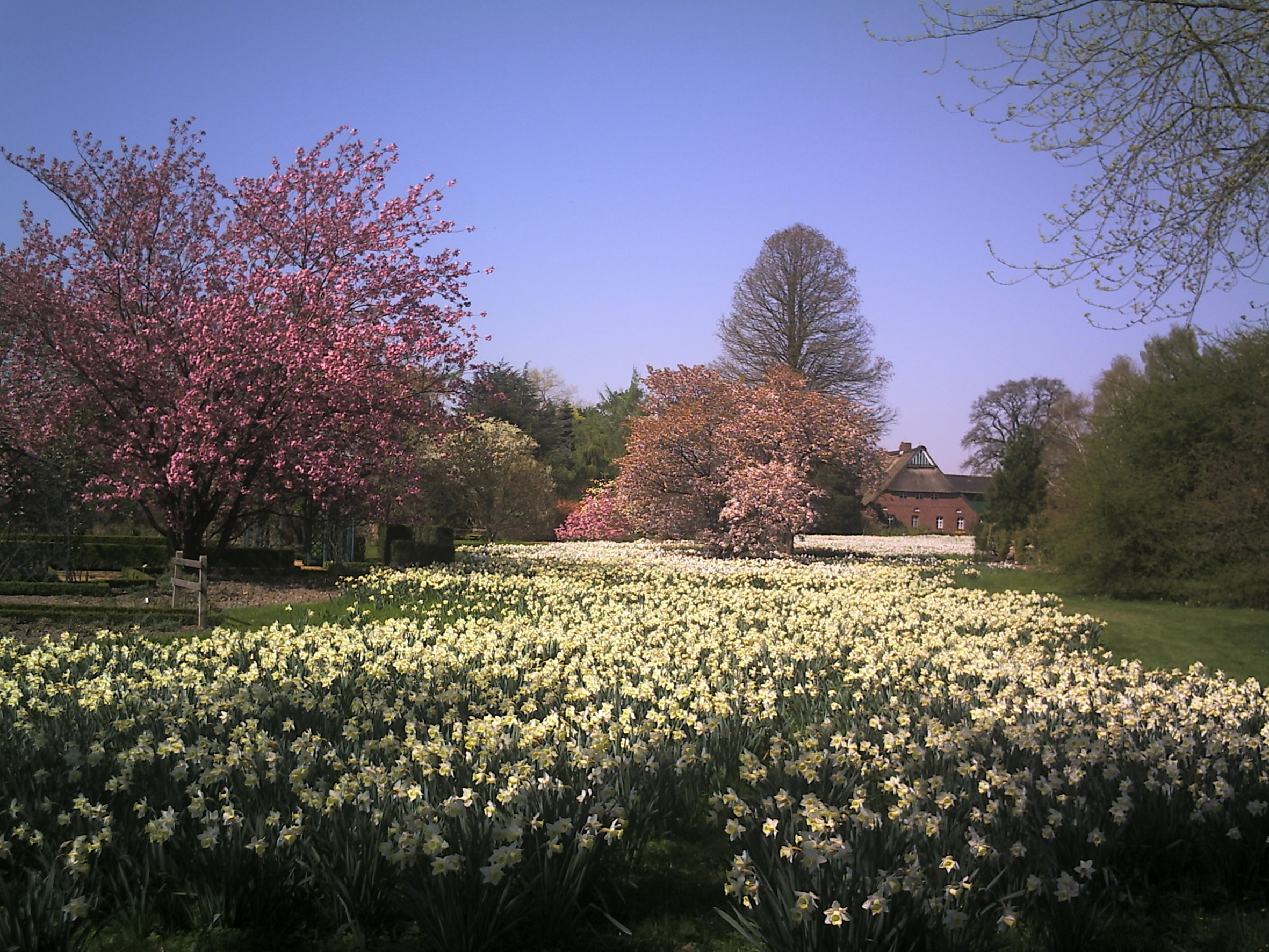 Poet's narcissus (Narcissus poeticus) in the Arboretum Ellerhoop, Schleswig-Holstein, Germany